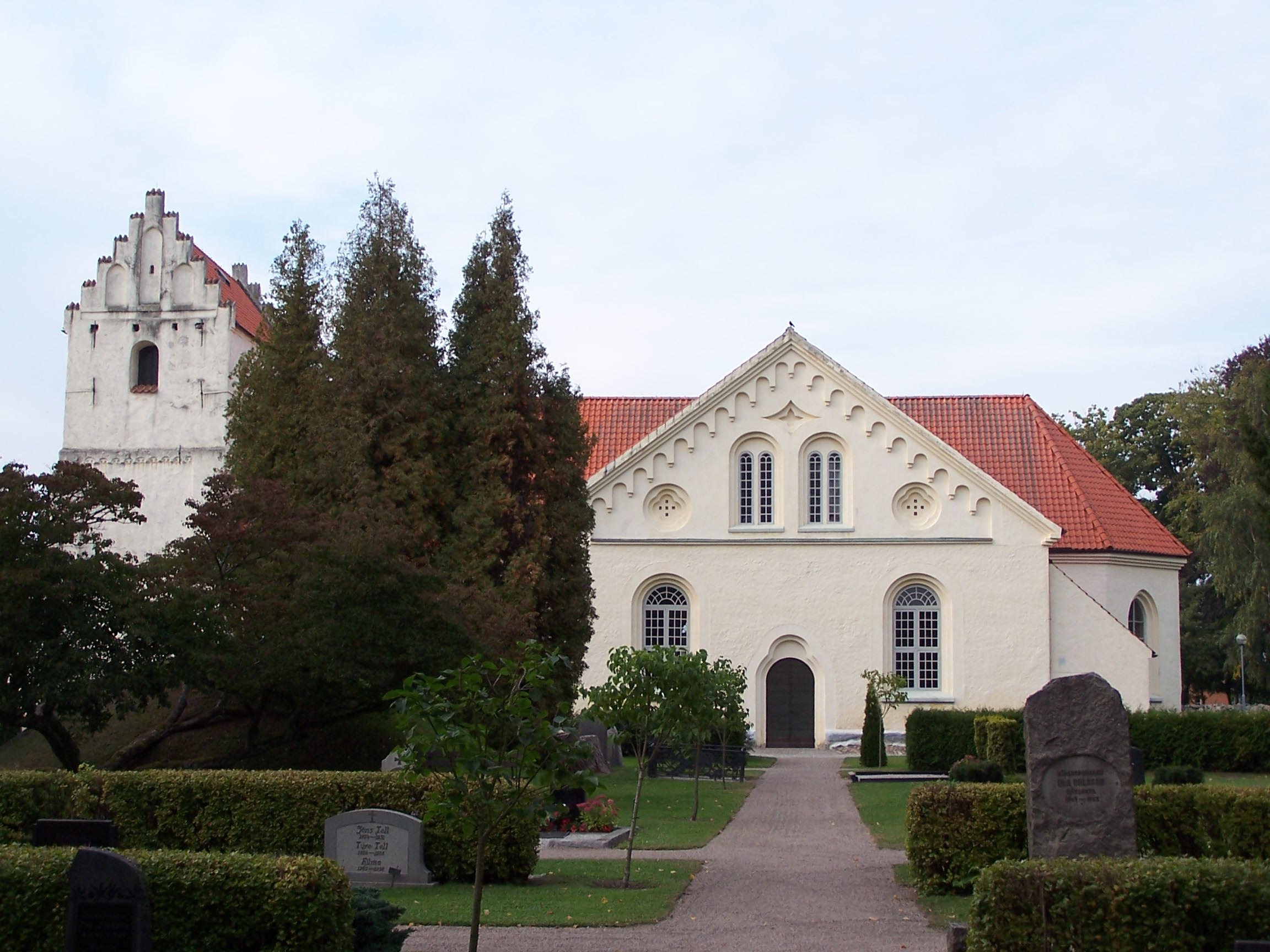 Ivetofta church, Sweden